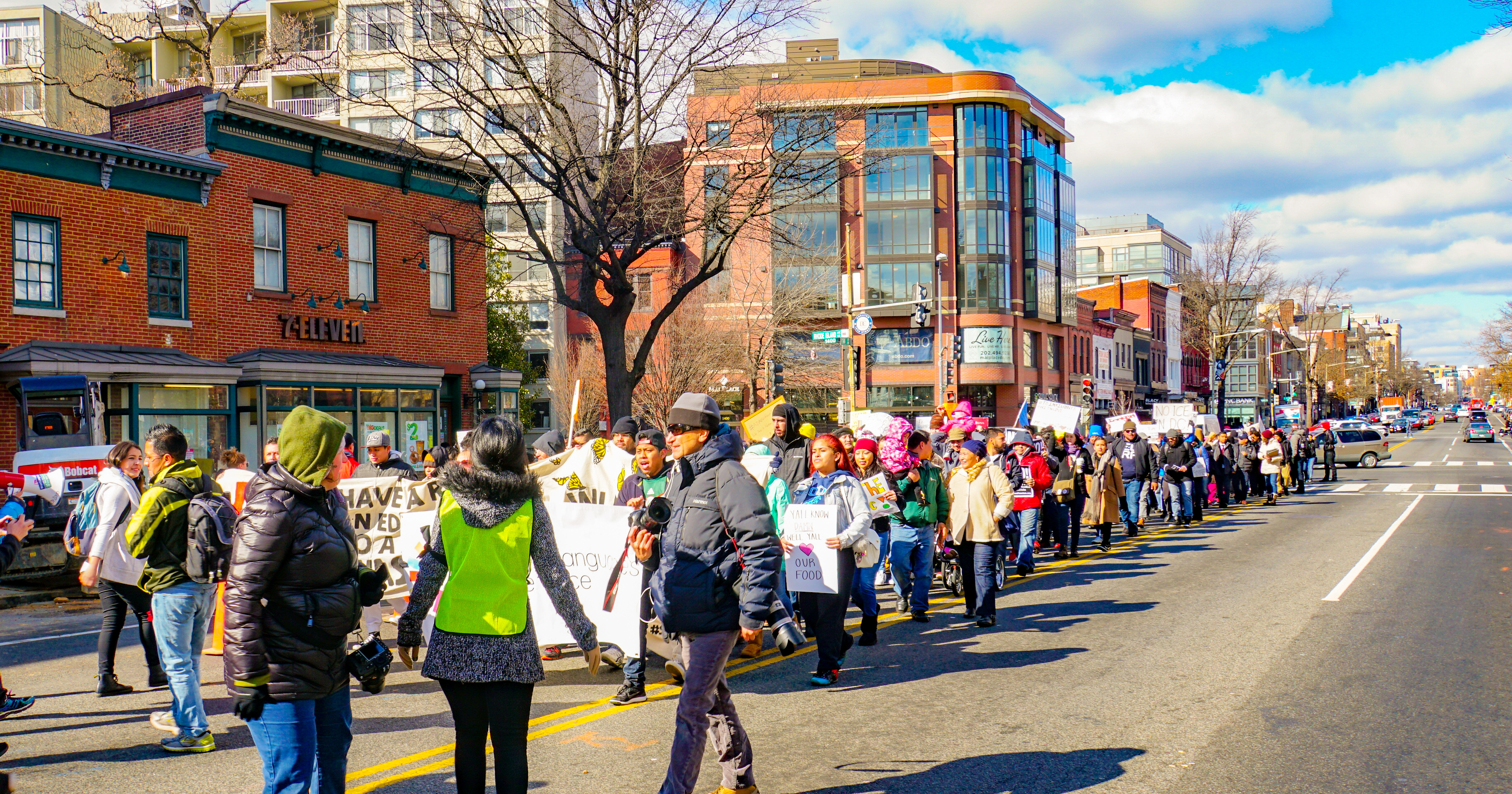 2017.02.16 A Day Without Immigrants, Washington, DC USA 00829